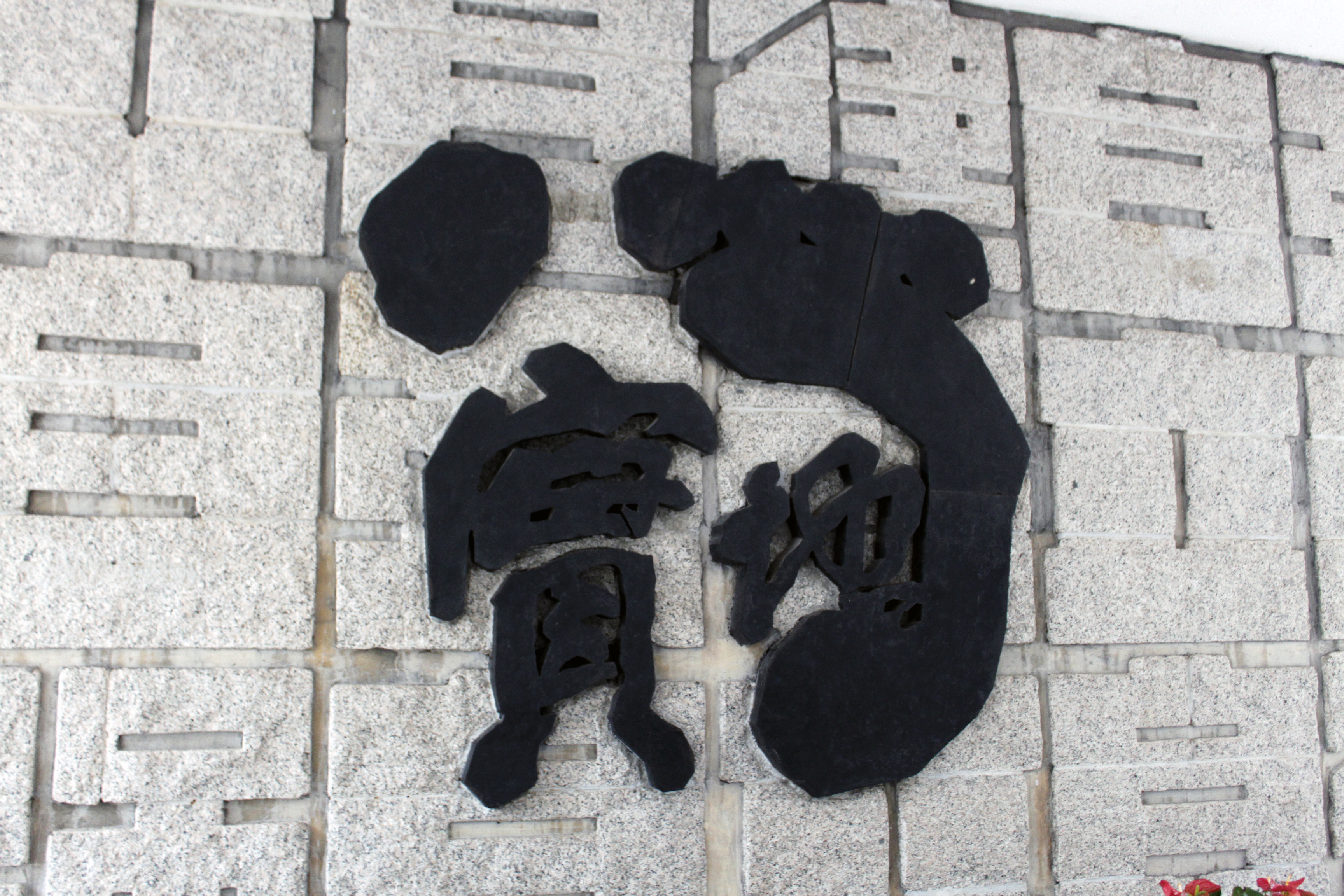 Photo of Jiao Ta Shi Di Wall of Shenzhen University.